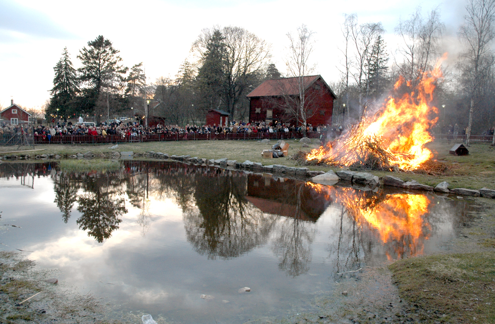 The celebration of Walpurgis Night (Valborgsmässoafton) on the last day of April. Photograph by Henryk Kotowski on April 30, 2005 in Akalla, a suburb of Stockholm, Sweden.